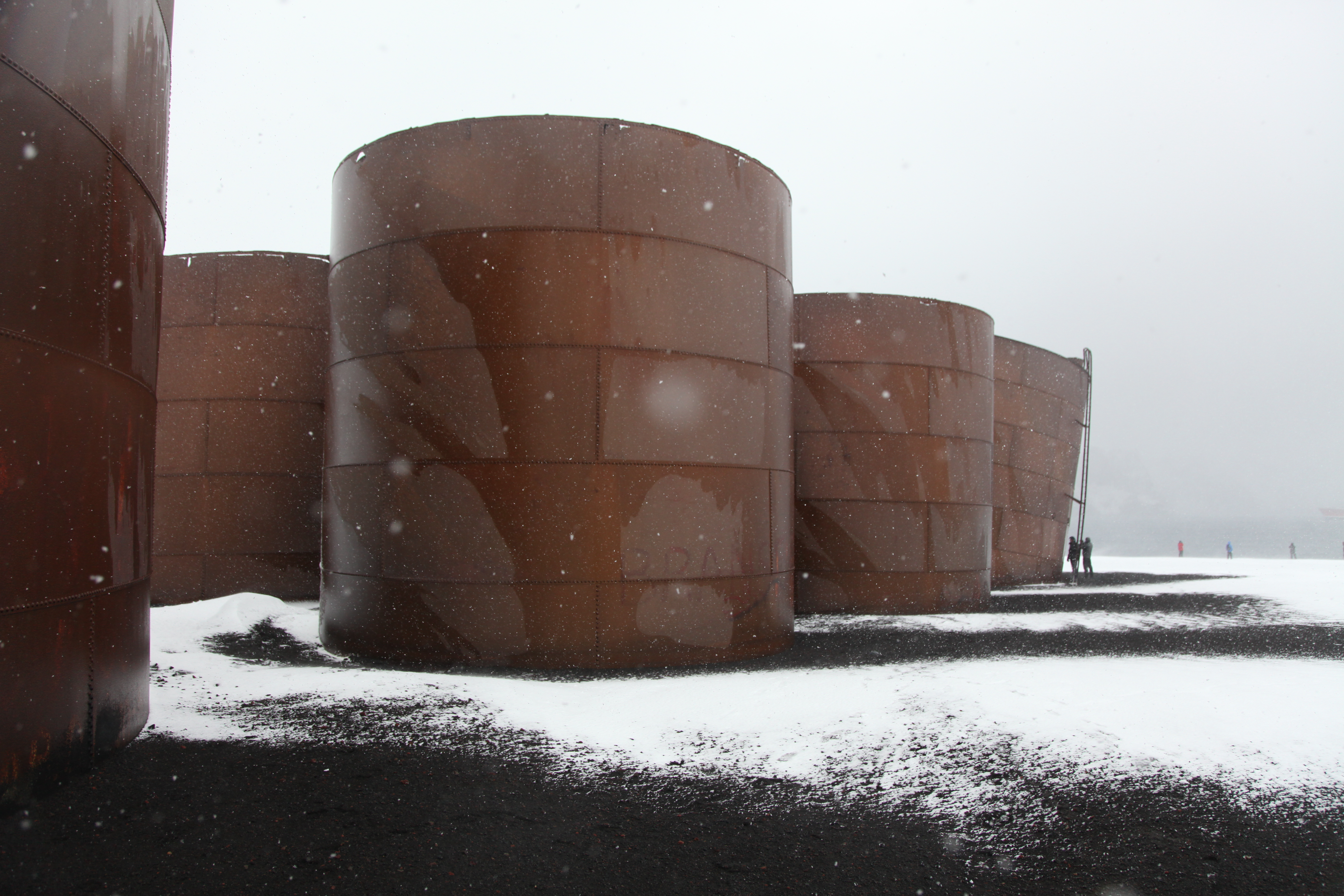 On a snowy summer day in the South Shetland Islands, Antarctica.